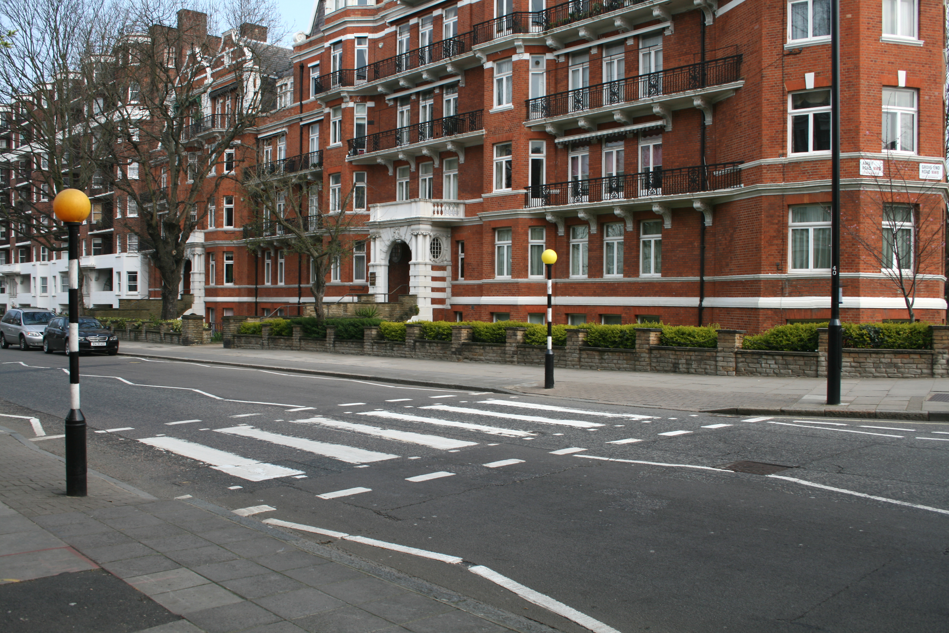 The zebra crossing in 2007. Abbey Road Zebra Crossing, 2007.